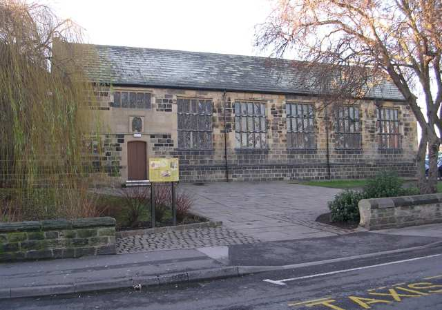 Elizabethan Hall, Brook Street, Wakefield, West Yorkshire, England. Built in the 1590s as Queen Elizabeth Grammar School, in 1855 it was taken over by the Greencoats School, and in the 1890s became the Cathedral Boys' School. Since 1981 it has been a part of the Museum Service.